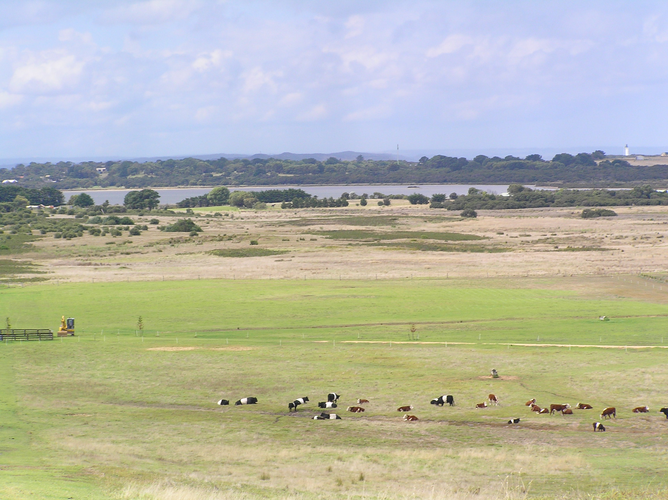 View of Lake Victoria from the west, from the Bellarine escarpment near Collendina, Victoria, Australia.